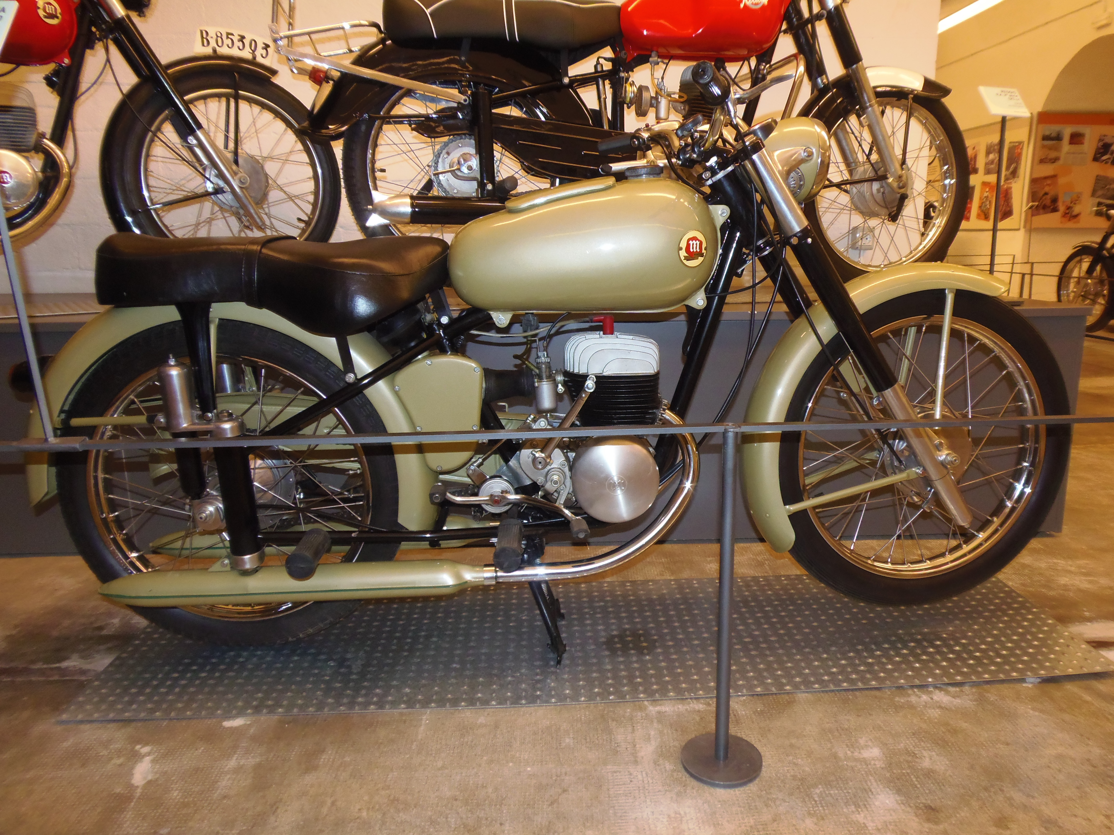 Montesa Brio 81 125 cc, 1957